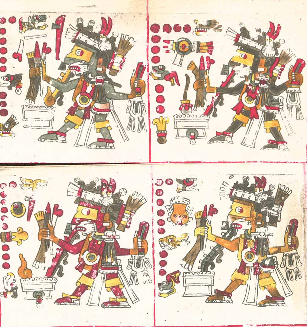 A drawing of Macuiltonaleque, deities described in the Codex Borgia